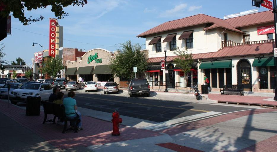 Campus Corner in Norman, OK near the intersection of Boyd and Asp.